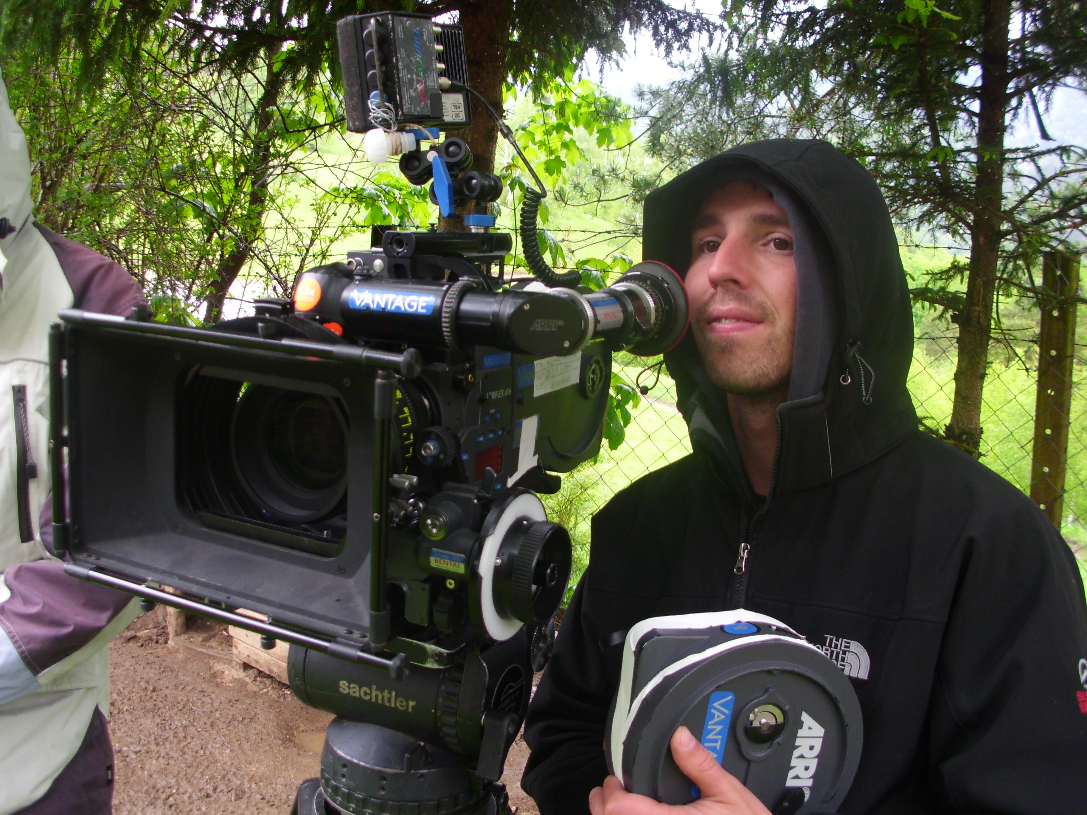 Cinematographer Kaloyan Bozhilov prepares a shot for the mountain scene of ALIENATION, feature film from writer/director Milko Lazarov; Equipment: ARRIFLEX 416 camera